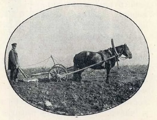 The "saban" ("kolesukha") type of plough used throughout Siberia in the XIX century. Photo of a Skoptsy ploughman in the Vilyuy okrug, Yakut oblast.